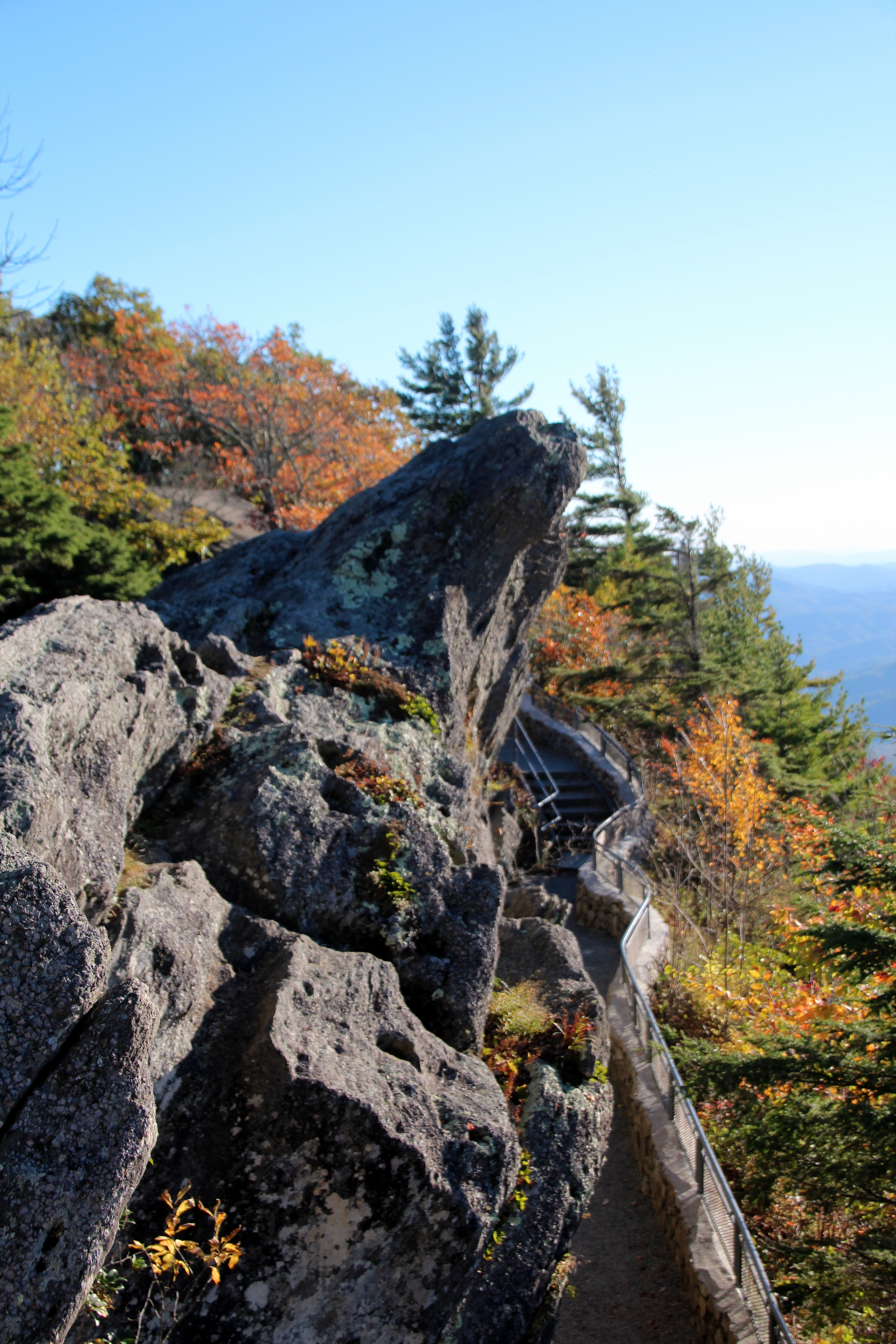 The Blowing Rock